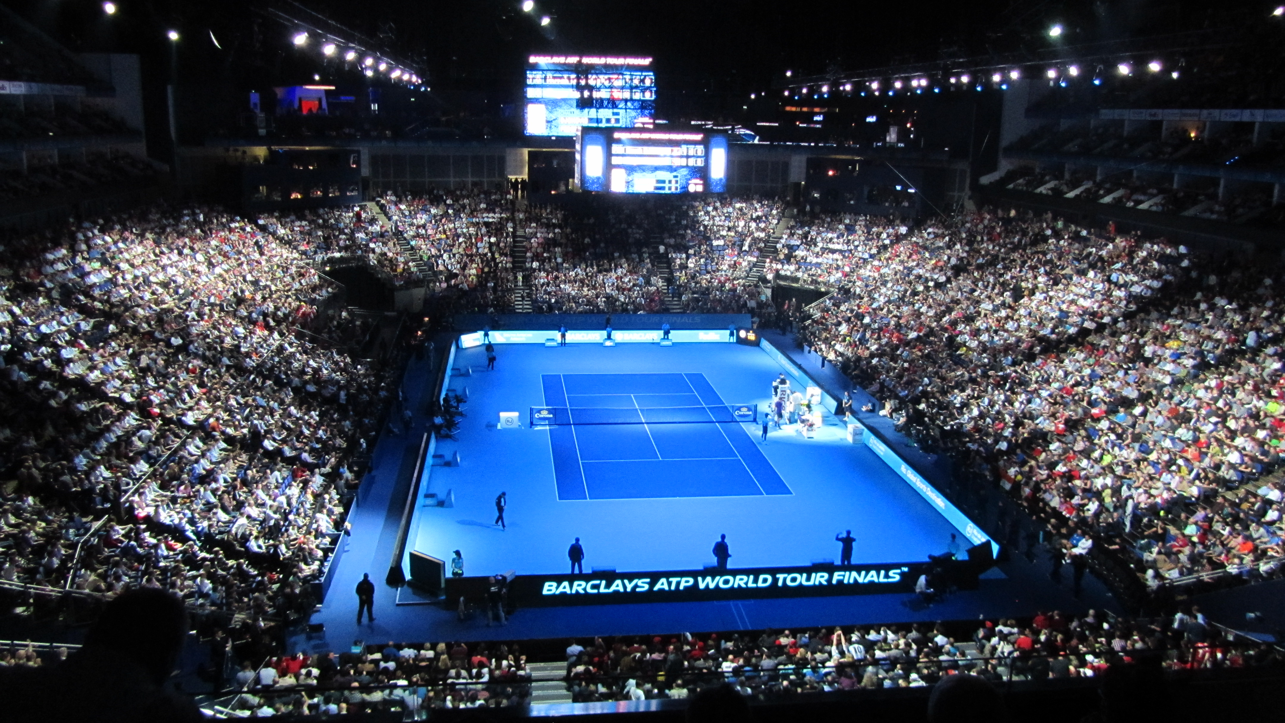 The O2 Arena during a changeover in the final of the ATP World Tour Finals between Novak Djokovic and Roger Federer.